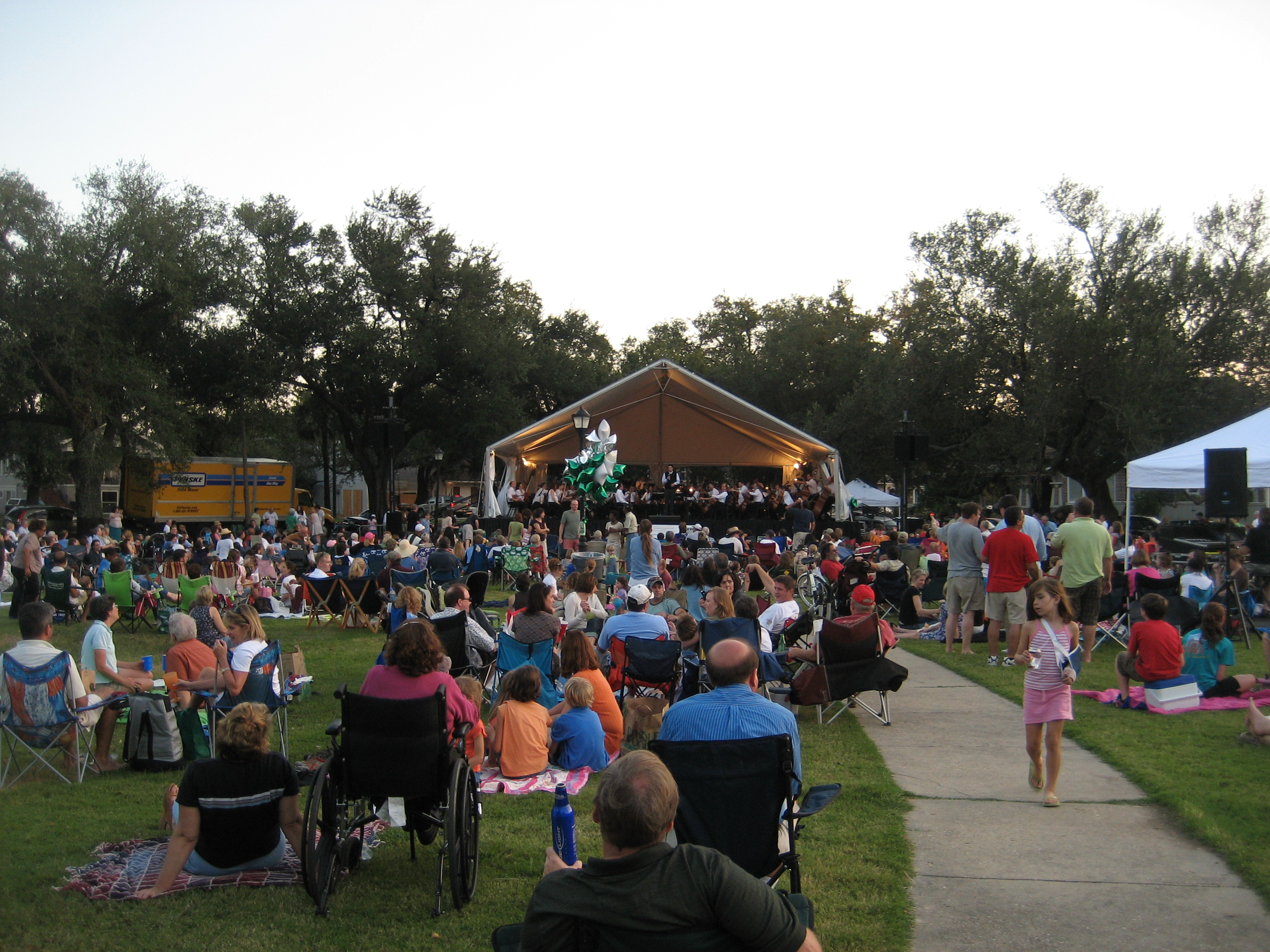 New Orleans: Palmer Park, during free pops concert by the Louisiana Philharmonic Orchestra.